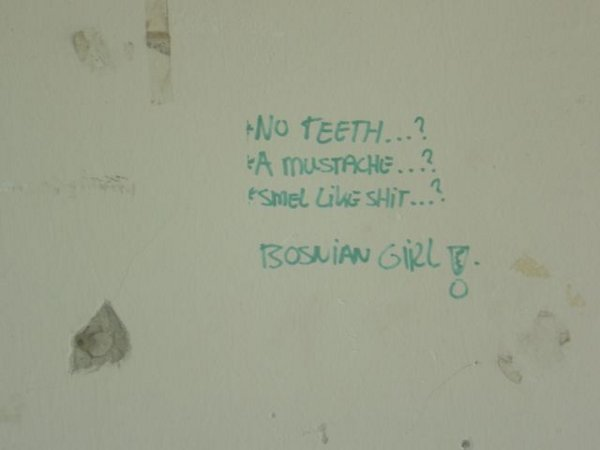 Graffiti in Srebrenica: "No Teeth...! A Mustache...? Smel Like Shit...? Bosnian Girl!" in Dutchbat-camp in Potocari.